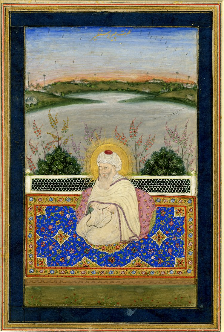 Pir Dastgir India, Mughal School, Late 18th century Opaque watercolour on paper Posthumous portraits of important religious and political figures were very popular in 18th-century Mughal India. This figure would have been a pir, the founder of a dervish order, but it is not now certain to which group he belonged.